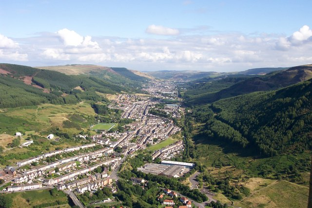 View from the head of the Rhondda. View from Pen Pych